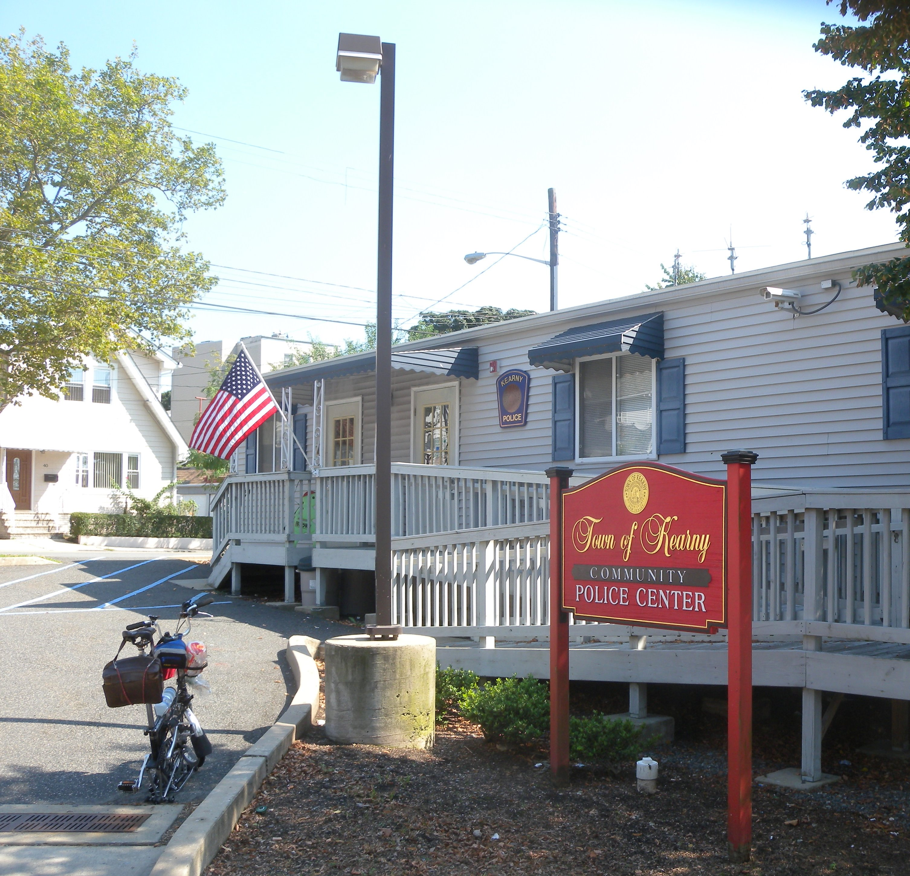 Looking southeast at Community Police Center on a sunny early afternoon.